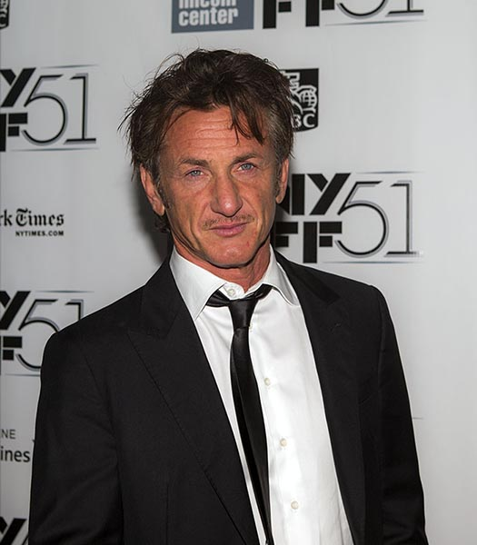 Sean Penn walking the 'The Secret Life of Walter Mitty' red carpet at the 51st New York Film Festival